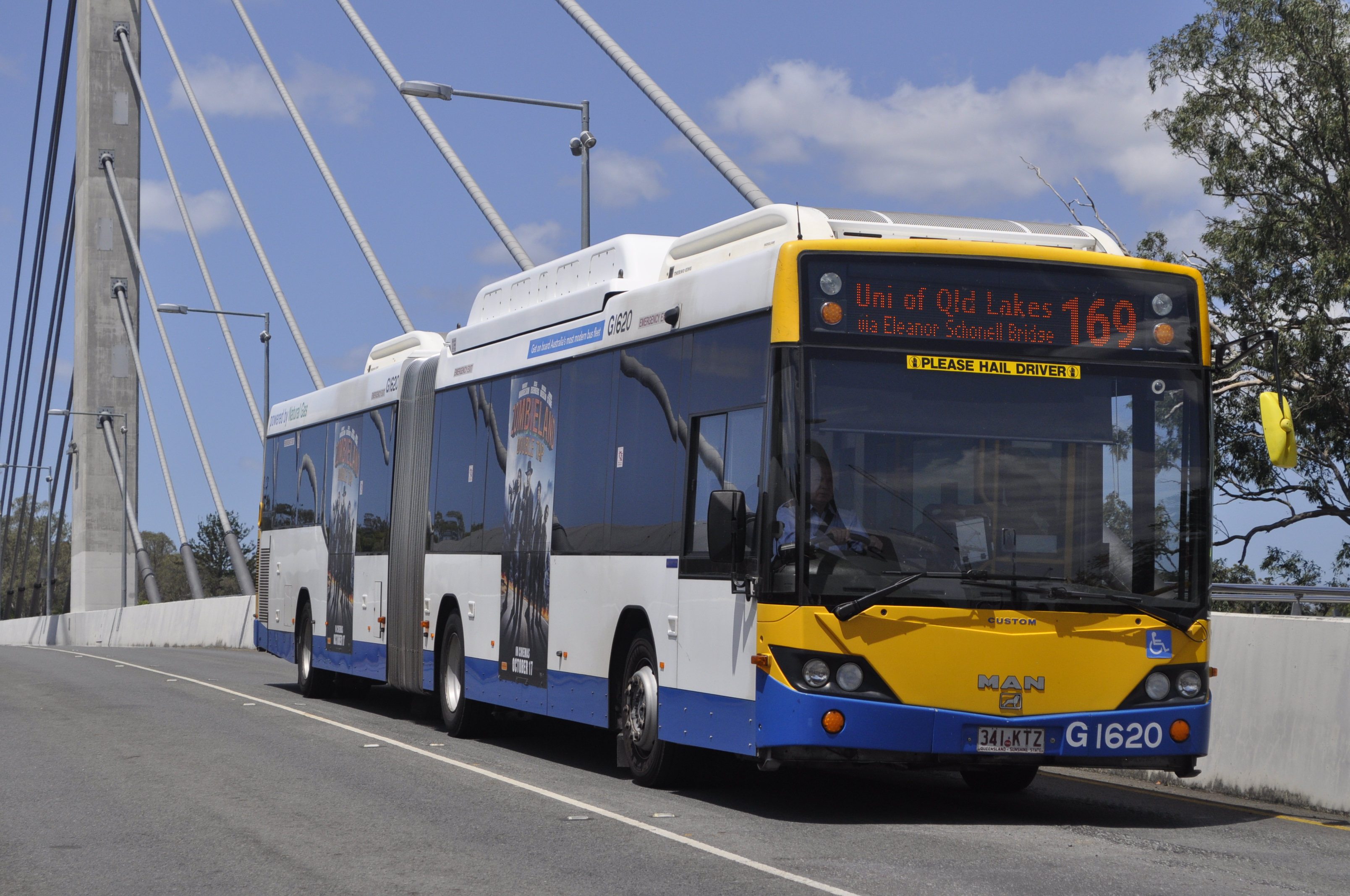 MAN NG313 G1620 arriving at the University of Queensland